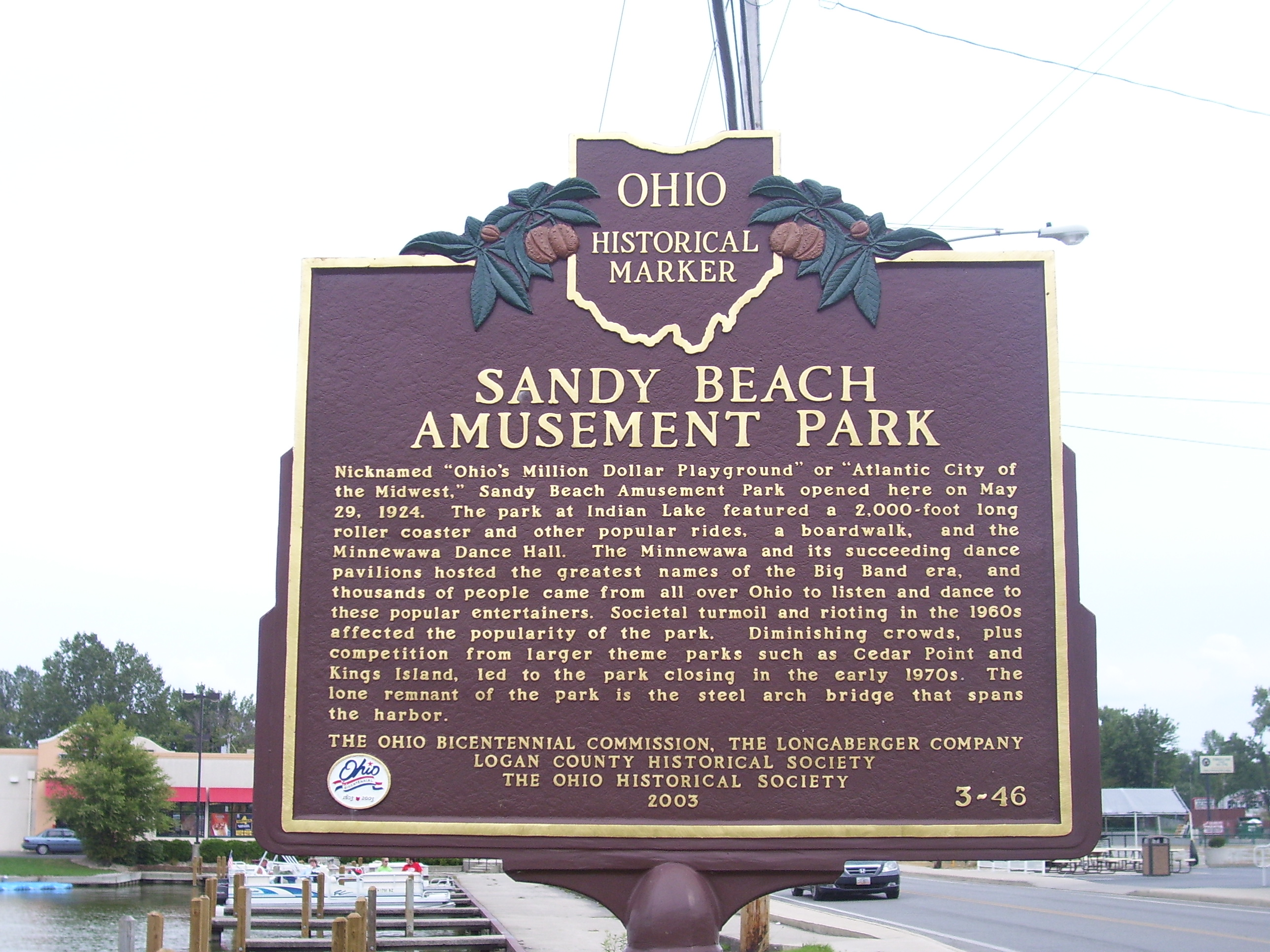 Historical marker outlining Sandy Beach Amuesment park, a no longer existant amuesment park at Indian Lake (Ohio)